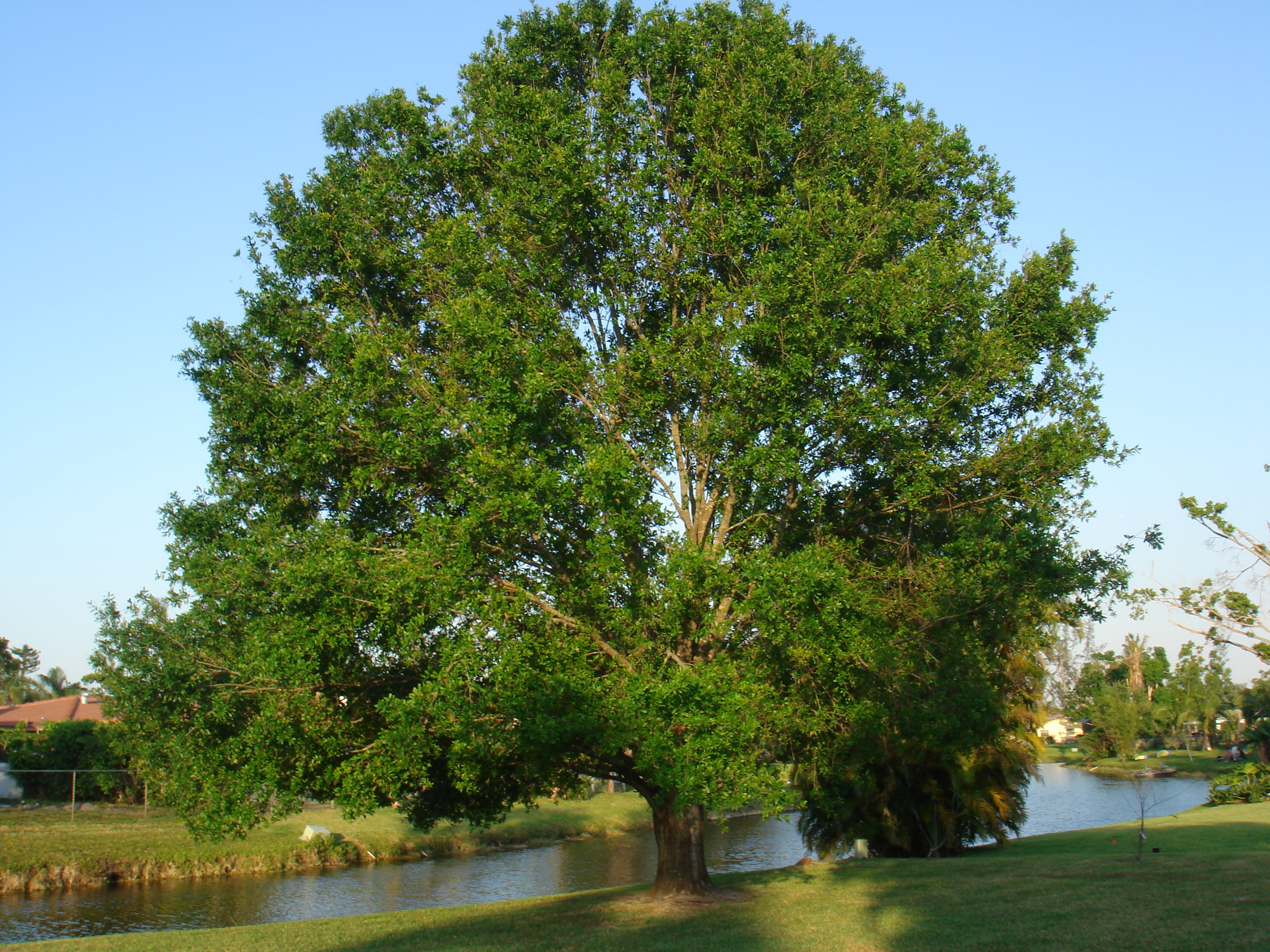 Coral Springs Oak and Waterway